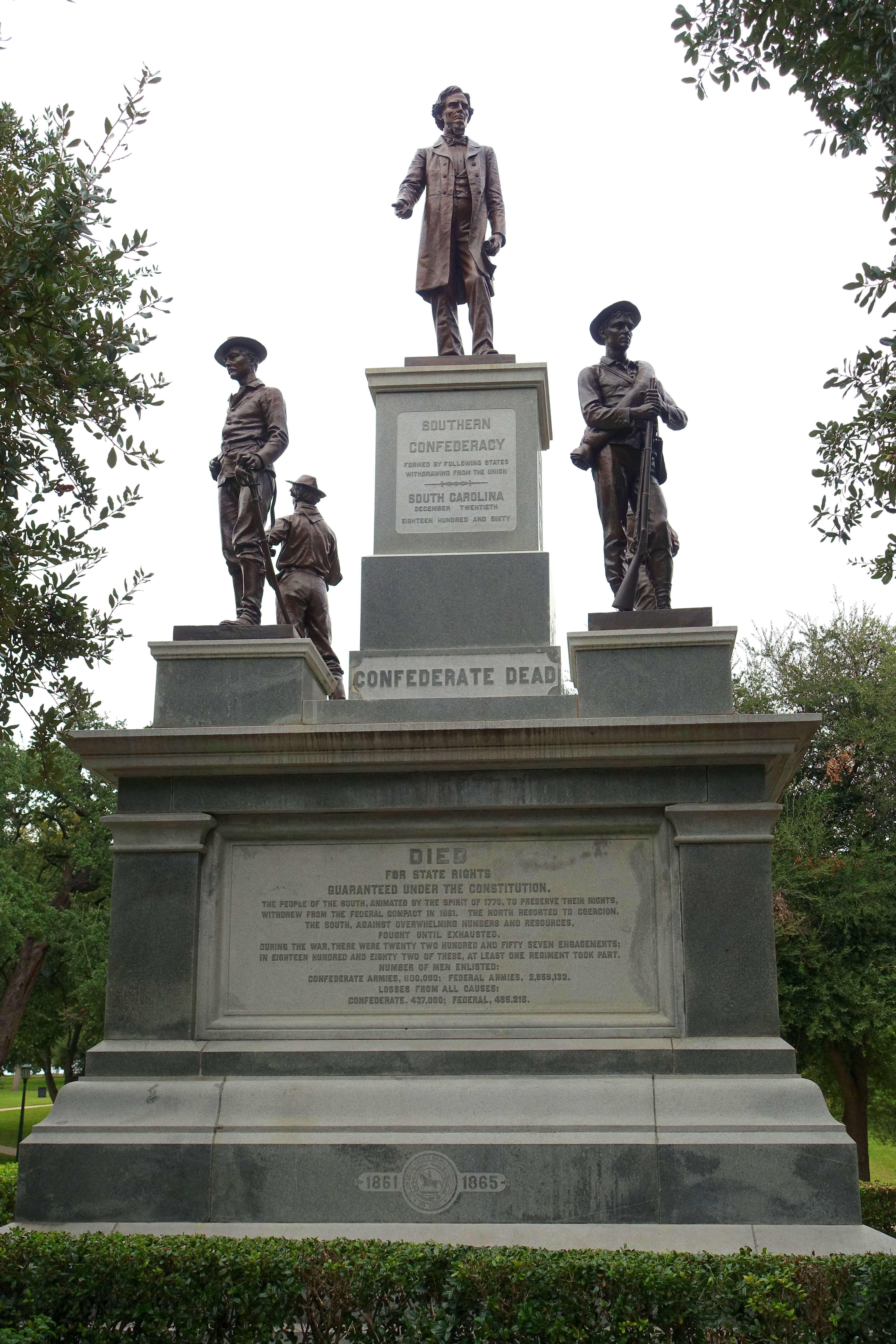 Confederate Dead Monument - Texas State Capitol grounds - Austin, Texas, USA. Base designer: Frank Teich. Sculptor: Pompeo Coppini. Erected beginning in 1903.